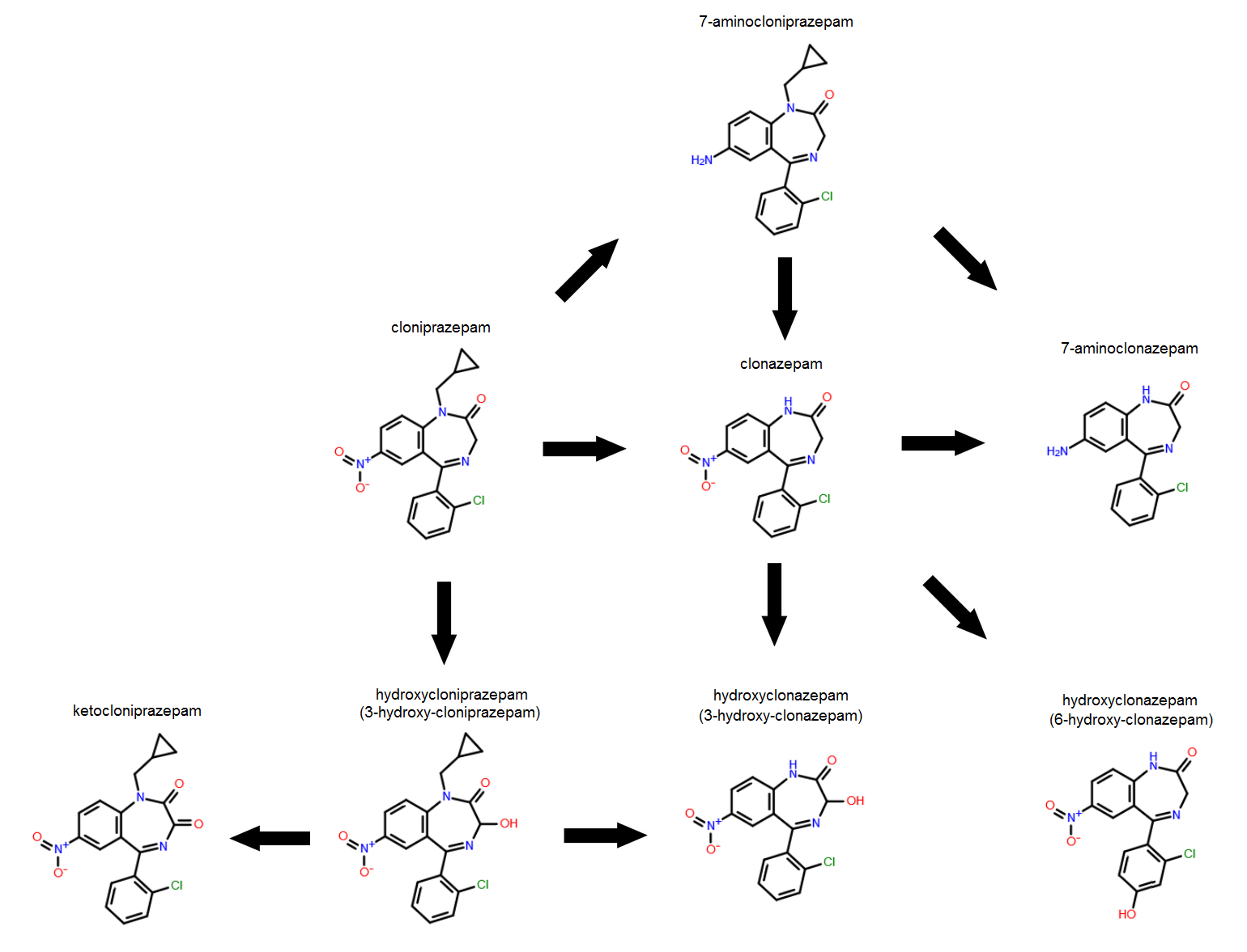 A diagram showing metabolism of Cloniprazepam, based on work of B. Moosmann, F. Franz, L.M. Huppertz and V. Auwärter from University of Freiburg, Germany